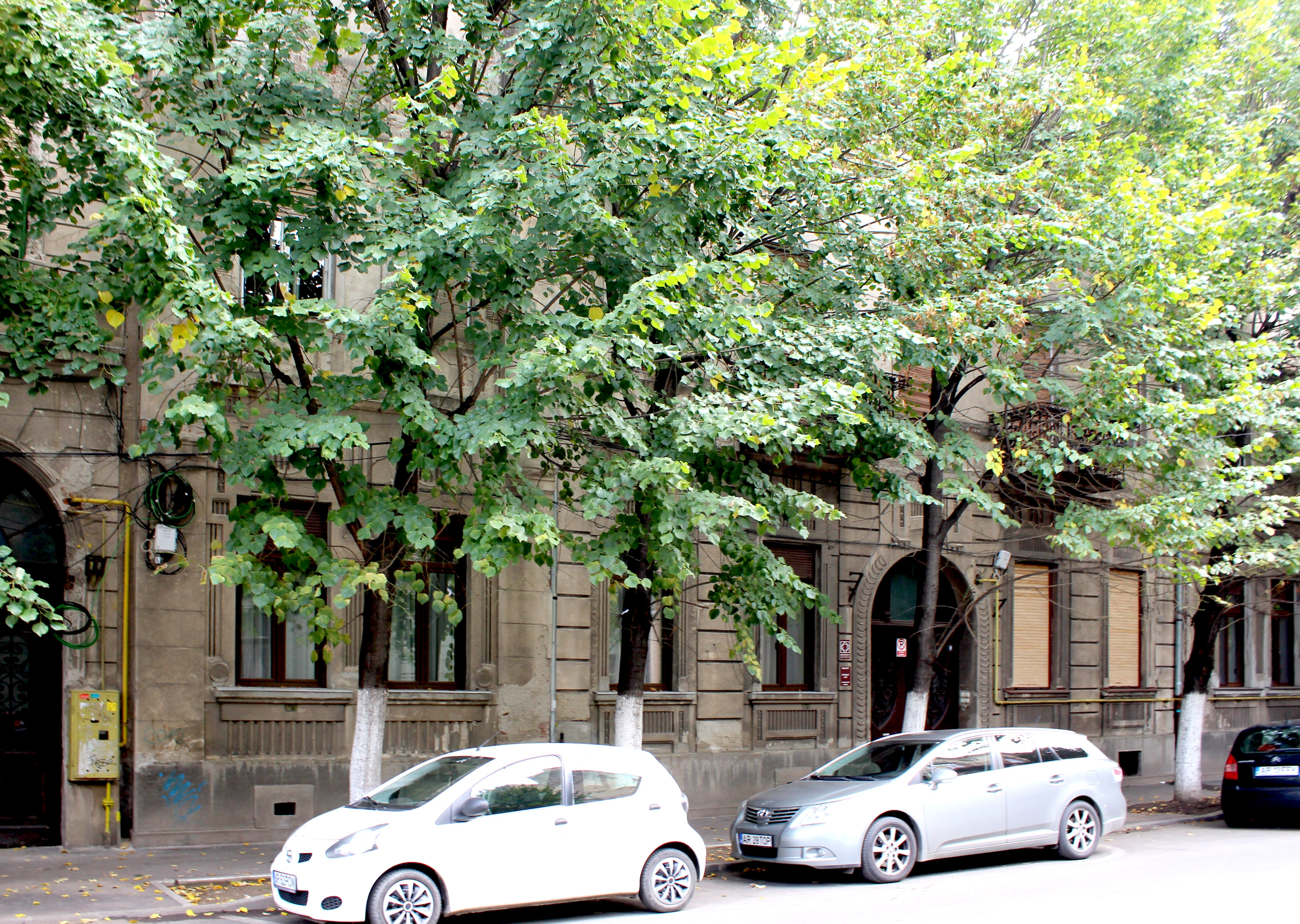 House, str Gheorghe Popa de Teiuș no 8, Arad, Romania, built 1911.